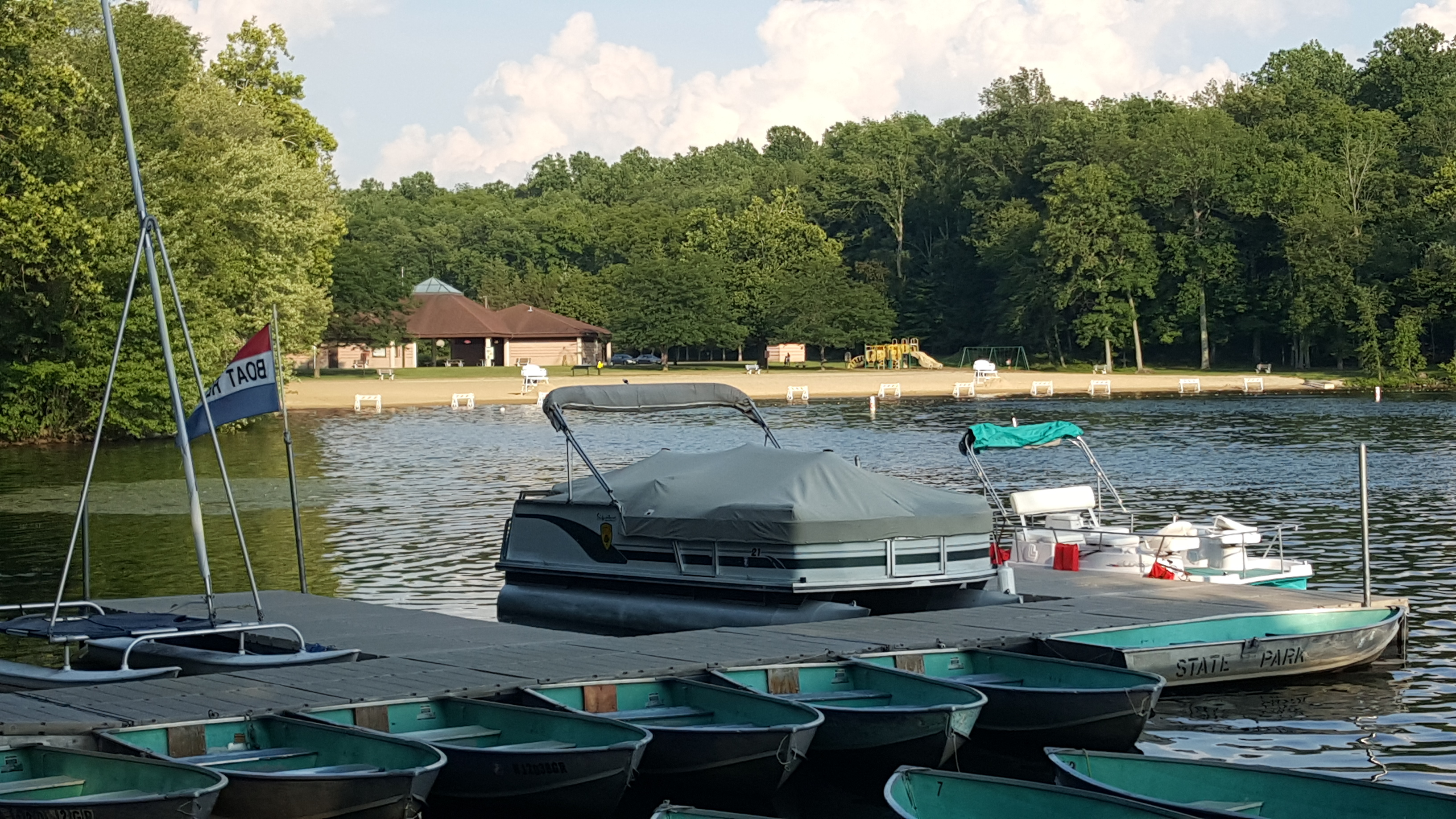 Boat docks at Swartswood State Park, Stillwater Township, New Jersey.